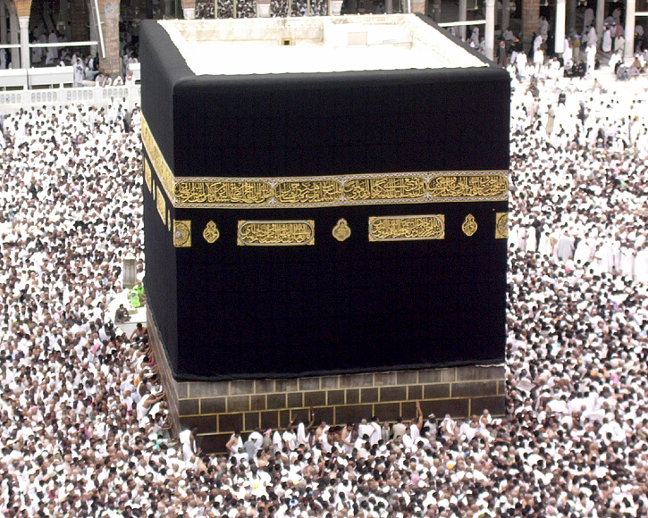 The Ka'aba in Mecca. From comments by the photographer on the Flikr page [1]: the photo was originally taken on 1 January 2003 (in Hajj season) from the 3rd floor with a Nikon small camera; The photographer states that it is not allowed to take pictures in Masjid al-Haram (Grand Mosque), but you can take pictures by your phone.